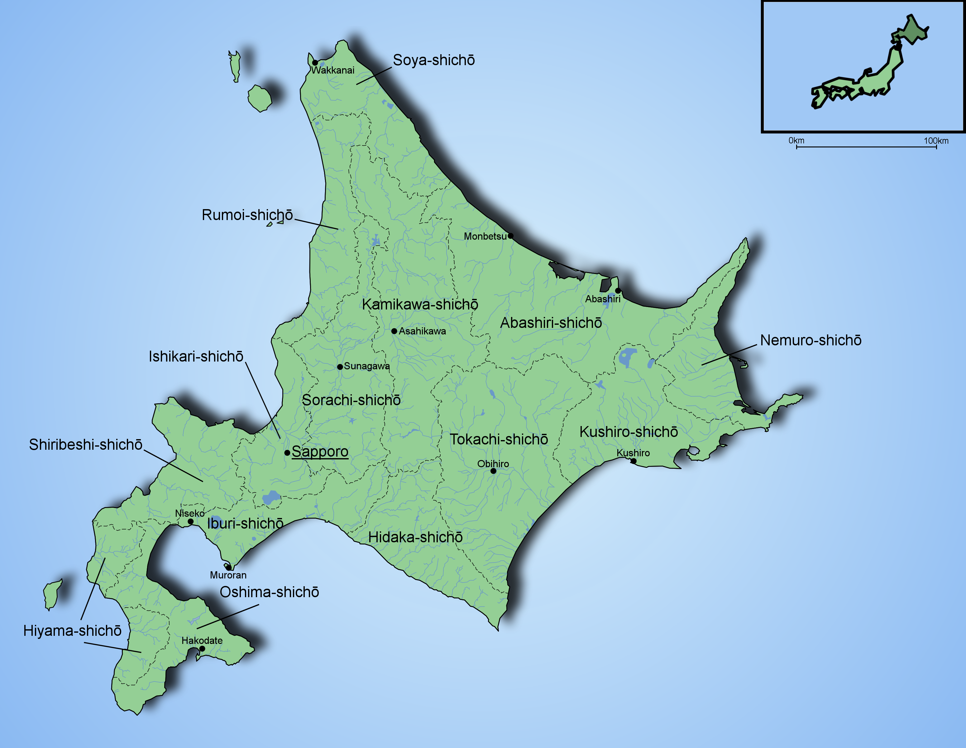 The image is created with Inkscape and Paint Shop Pro by Fi:Ningyou. Based on several maps found from internet and mapbooks. The Map is showing rivers and lakes of Hokkaido, the biggest cities and the borders of subprefectures.